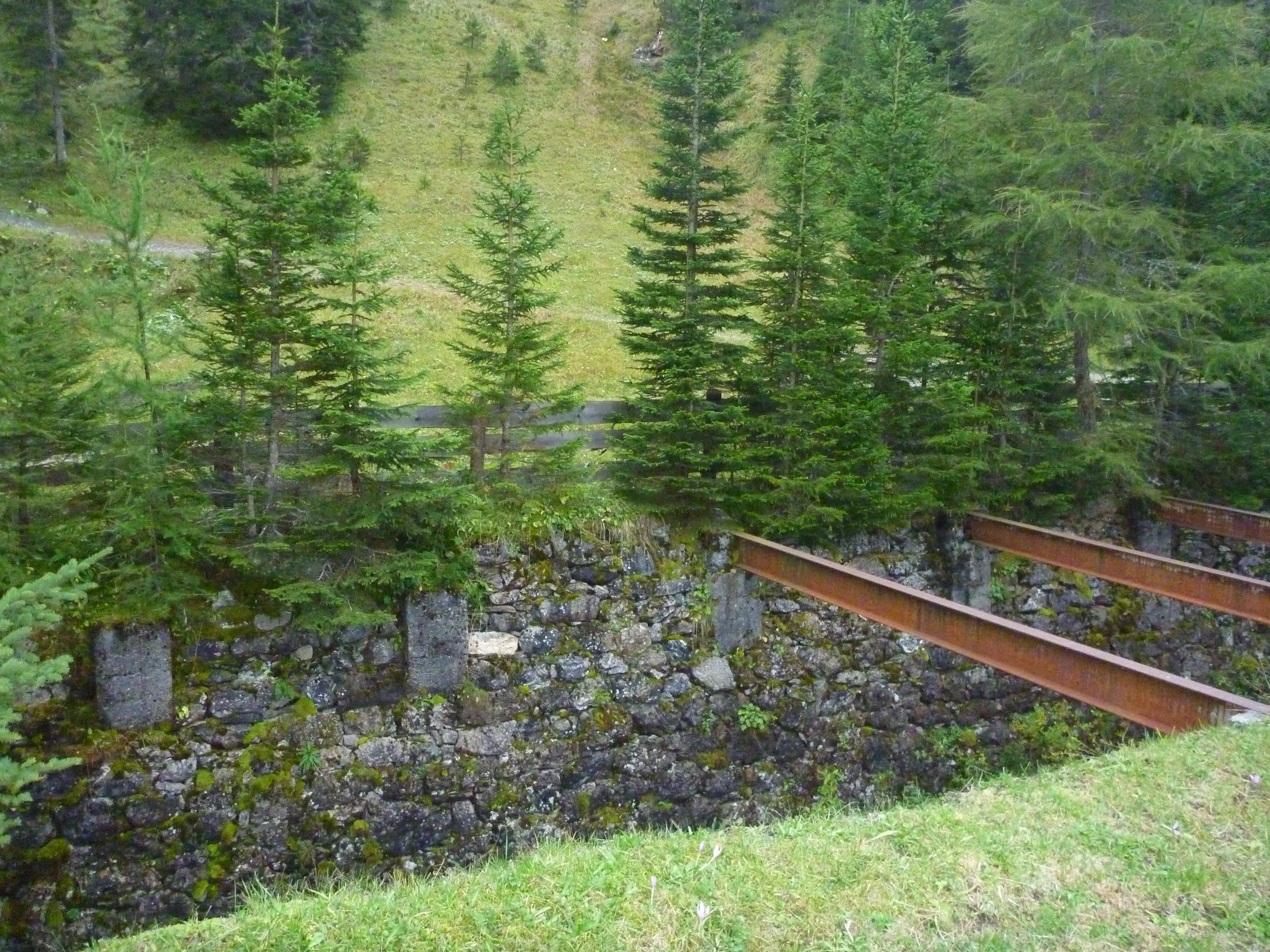 Plessurschanze with bridge crossing the River Plessur